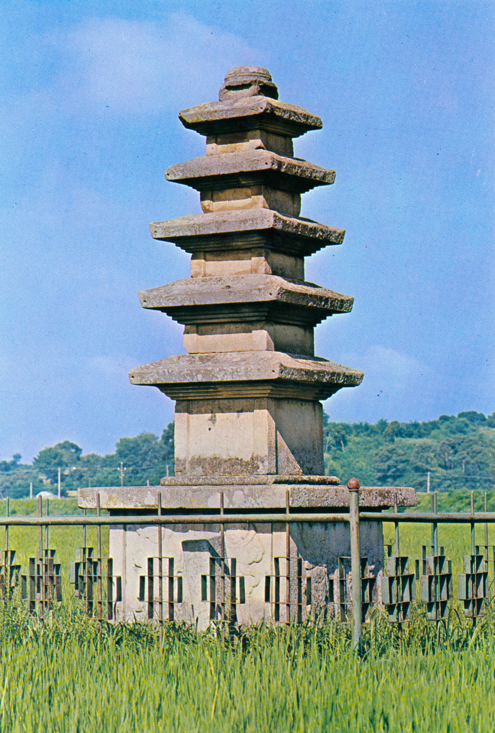 Five-story Stone Pagoda at Gaesimsa temple site in Yecheon, Korea